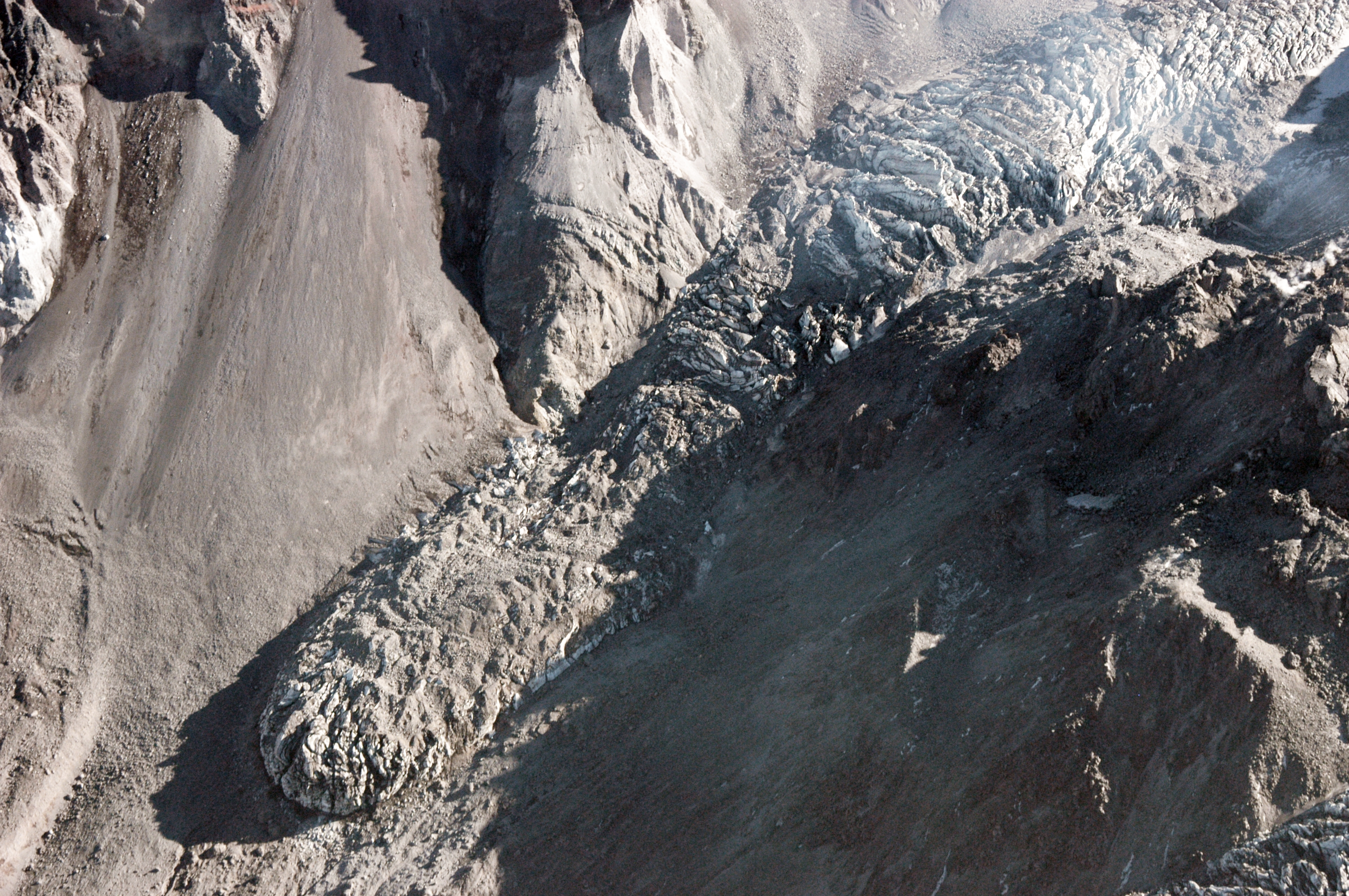 East lobe of the Tulutson Glacier on Mount Saint Helens